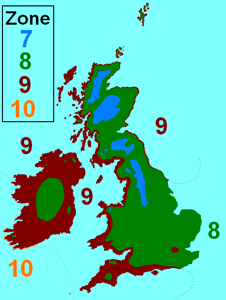 UK & Ireland plant hardiness zone map